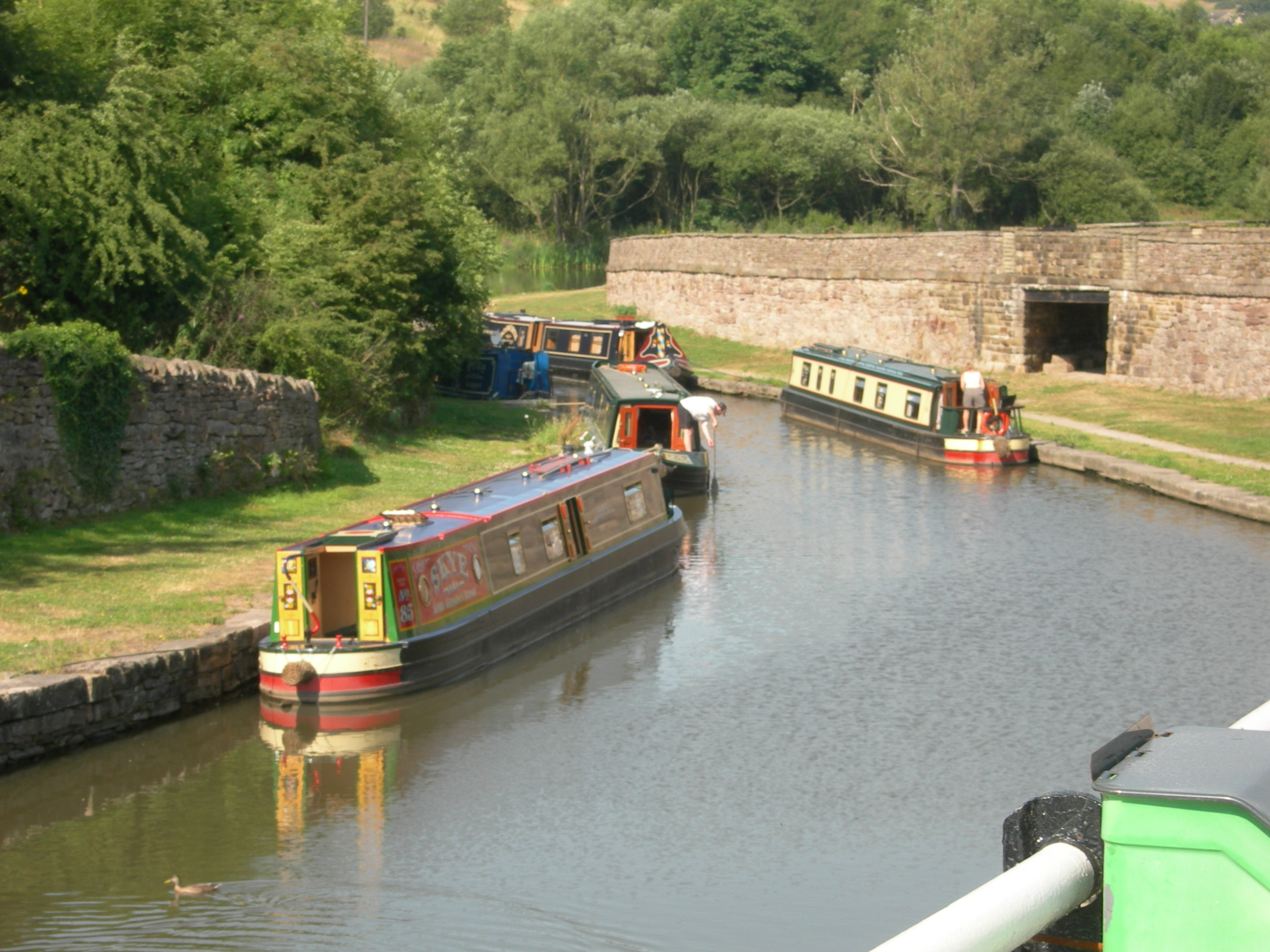 View of boats at Buxworth Basin, shortly after re-opening